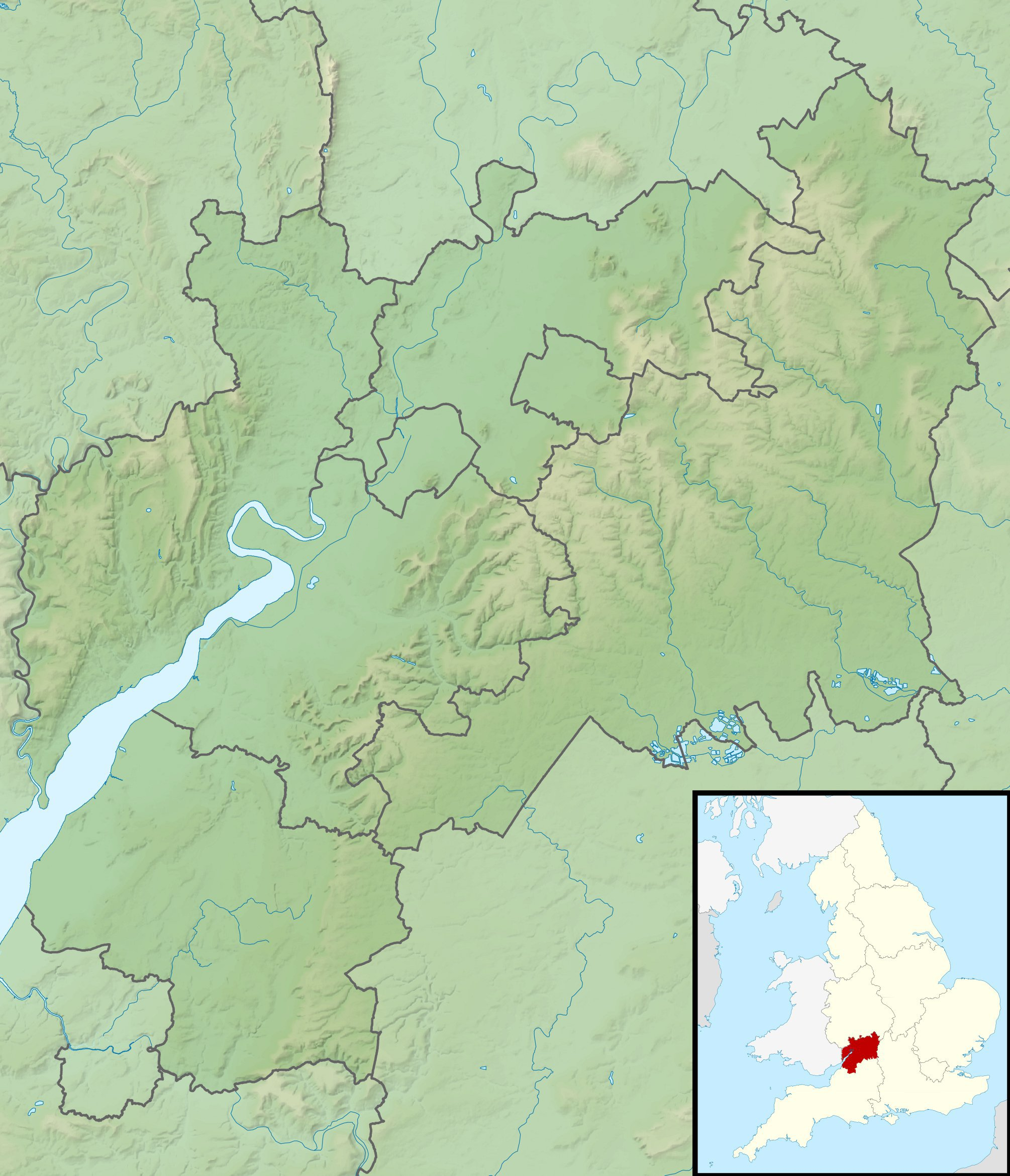 Relief map of Gloucestershire, UK. Equirectangular map projection on WGS 84 datum, with N/S stretched 160% Geographic limits: West: 2.70W East: 1.60W North: 52.16N South: 51.36N